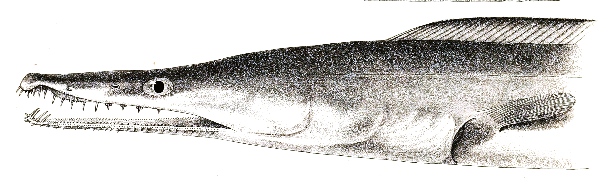 The species names / identity need verification - original names from plate are included here. The original plates showed the fishes facing right and have been flipped here. Muraenesox telabonoides